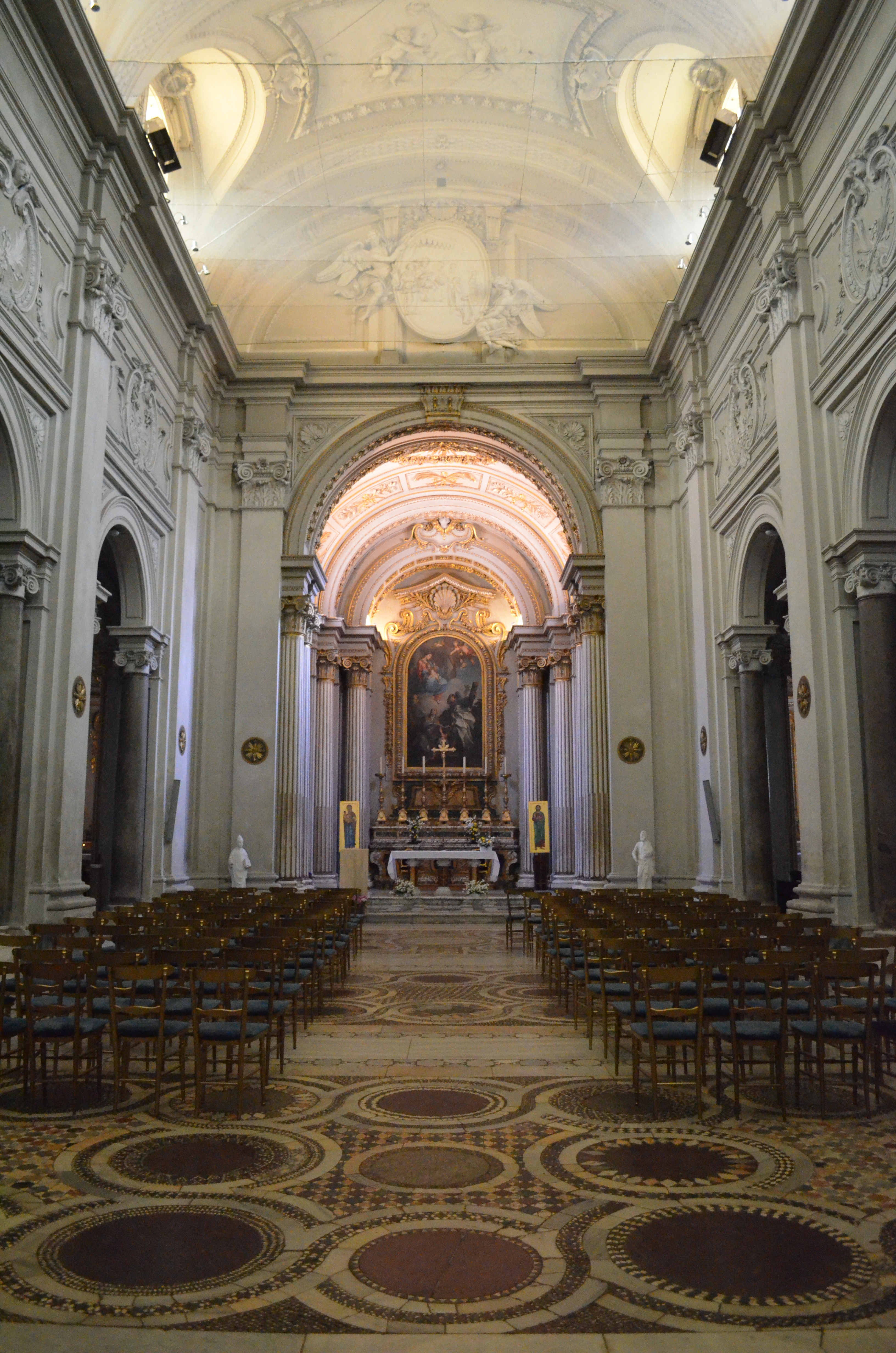 San Gregorio al Celio (Rome)